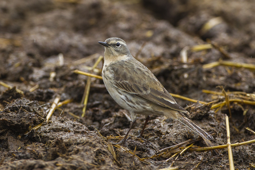 Near La Salle ( Aosta ) I like to spend time photographing birds coming to catch insects and worms in the cows manure